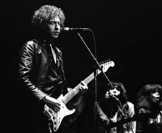 Bob Dylan at Massey Hall, Toronto, April 18, 1980 Photo by Jean-Luc Ourlin